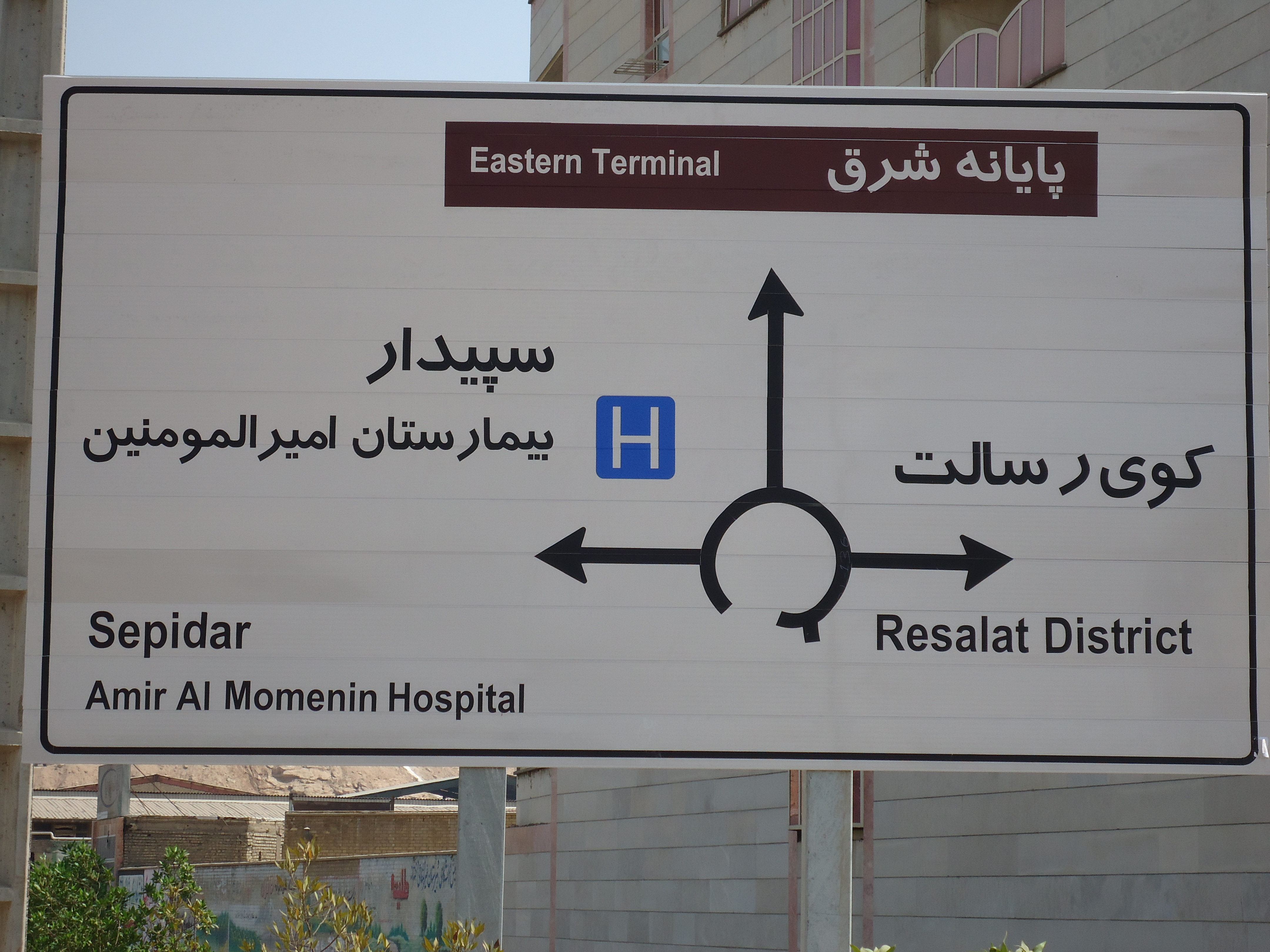 Sepidar town's guide sign in ahwaz